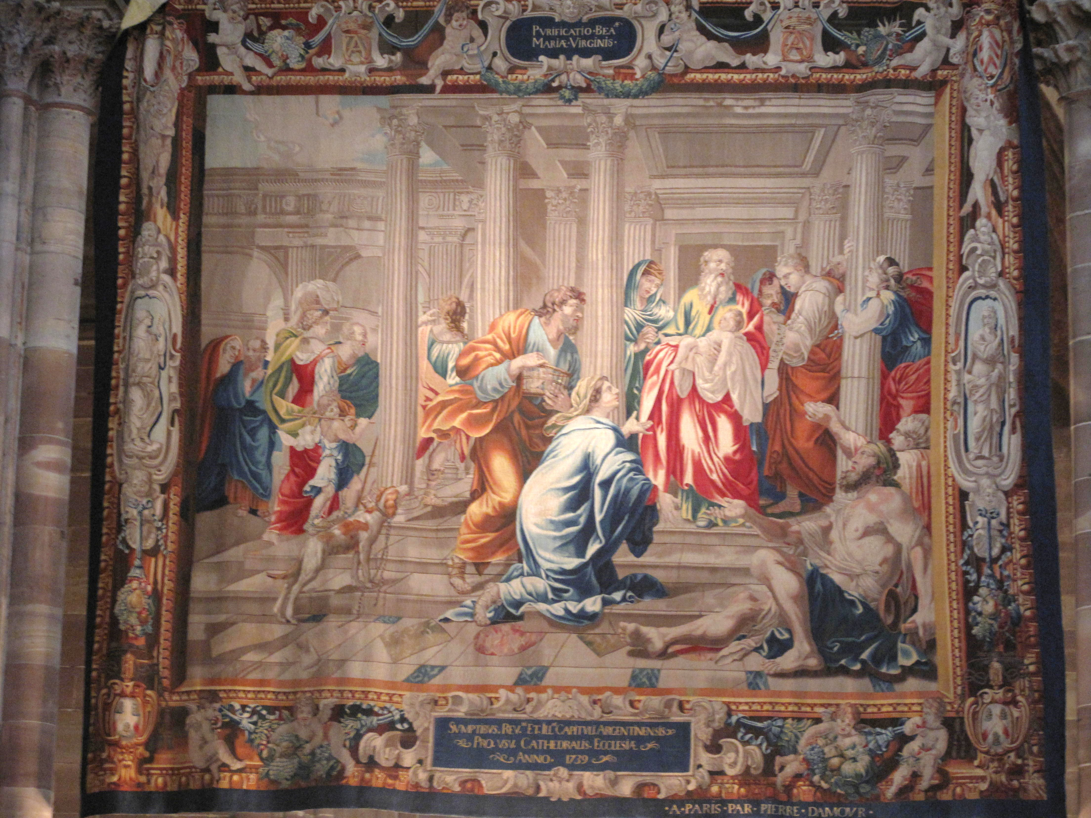 Tapestry of the Purification of the Virgin in the nave of the cathedral of Strasbourg, France. This scene of Mary's life is also known with the names of Presentation of Jesus in Temple or Candlemas.